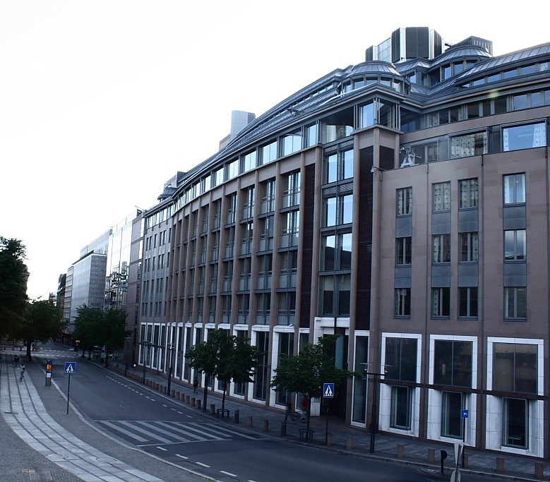 The following Ministries are located at Akersgata 59: The Ministry of Children and Equality. The Ministry of Government Administration and Reform. The Ministry of Local Government and Regional Development. The Ministry of Culture and Church Affairs. The Ministry of Agriculture and Food. The Ministry of Transport and Communications.